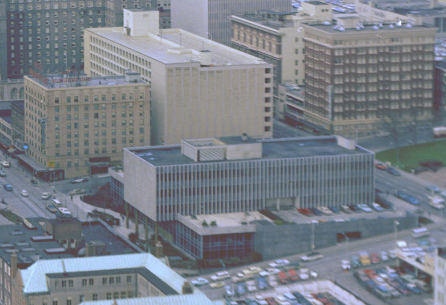 Downtown Seattle Public Library, 1969. This is the Bindon & Wright-designed library, the second of the three central library buildings on this site as of 2011.